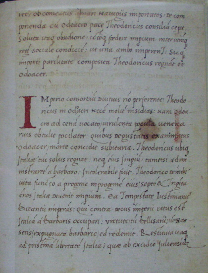 Page of De restitutione patriae, where Theodoric is mentioned. It is f.11r of bibl. Civica di Udine no. 793.